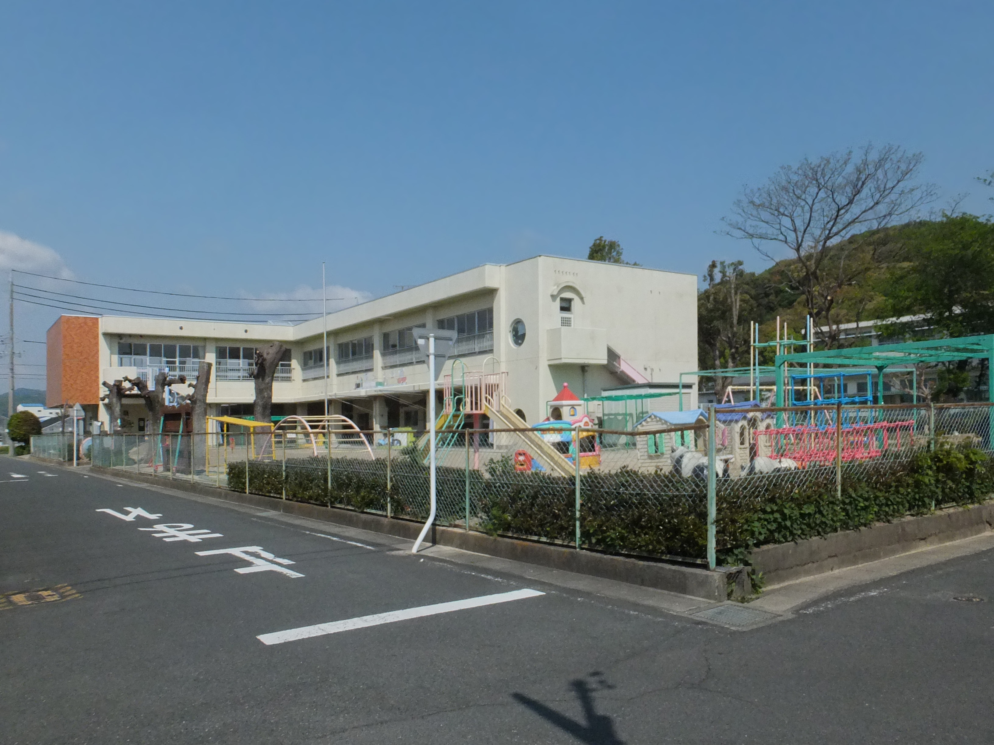 Toyokawa City Hachinan Nursery School (豊川市立八南保育園), located at 40 Hananoki, Kozakai-cho, Toyokawa, Aichi, Japan